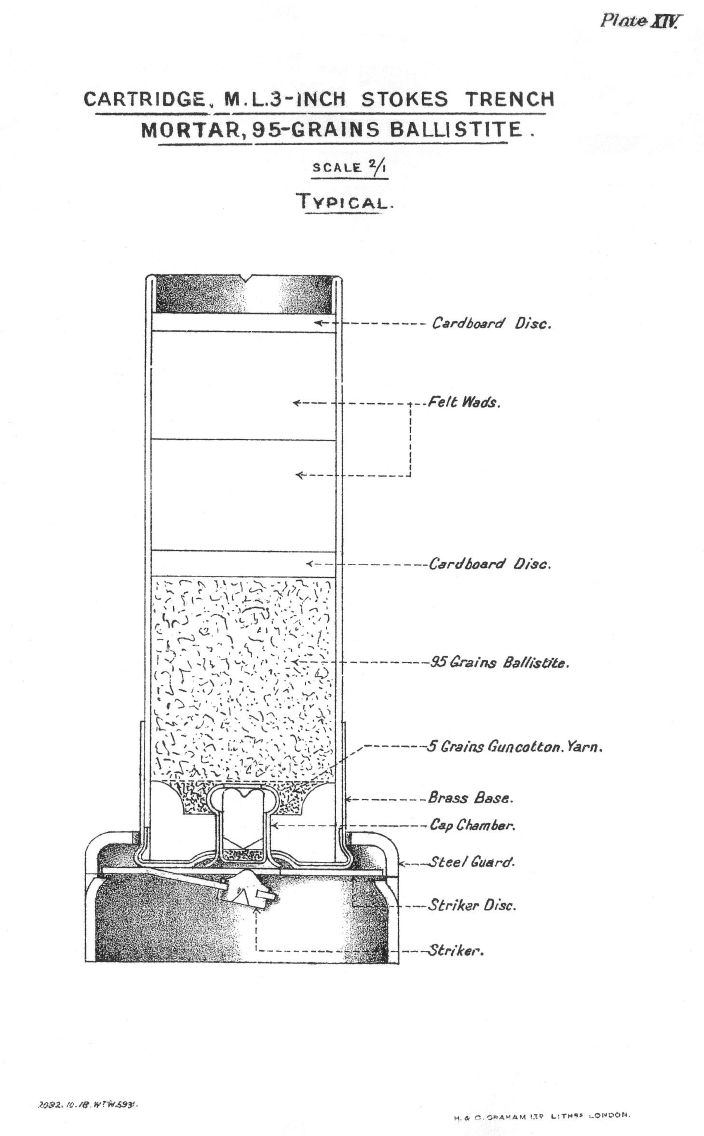 Diagram showing 95 grains ballistite cartridge for 3-inch Stokes Mortar.